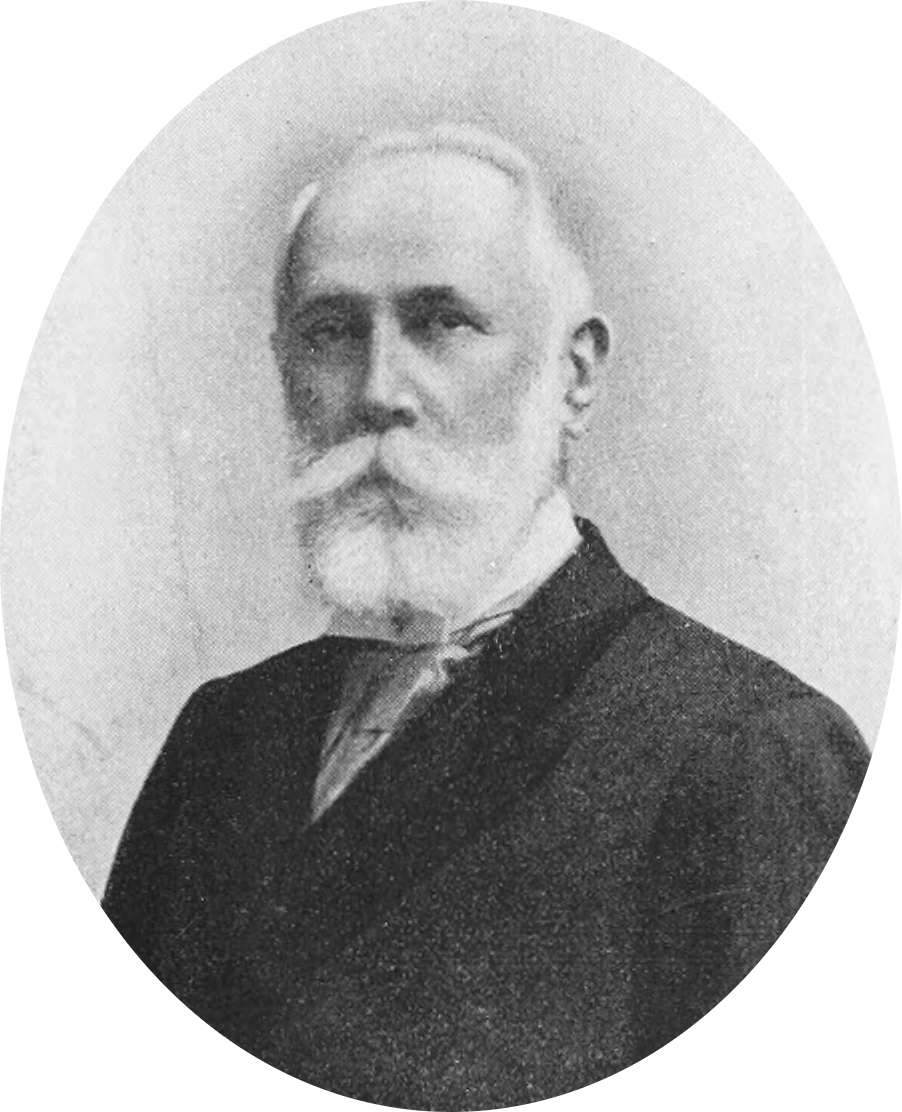 Max von Brandt